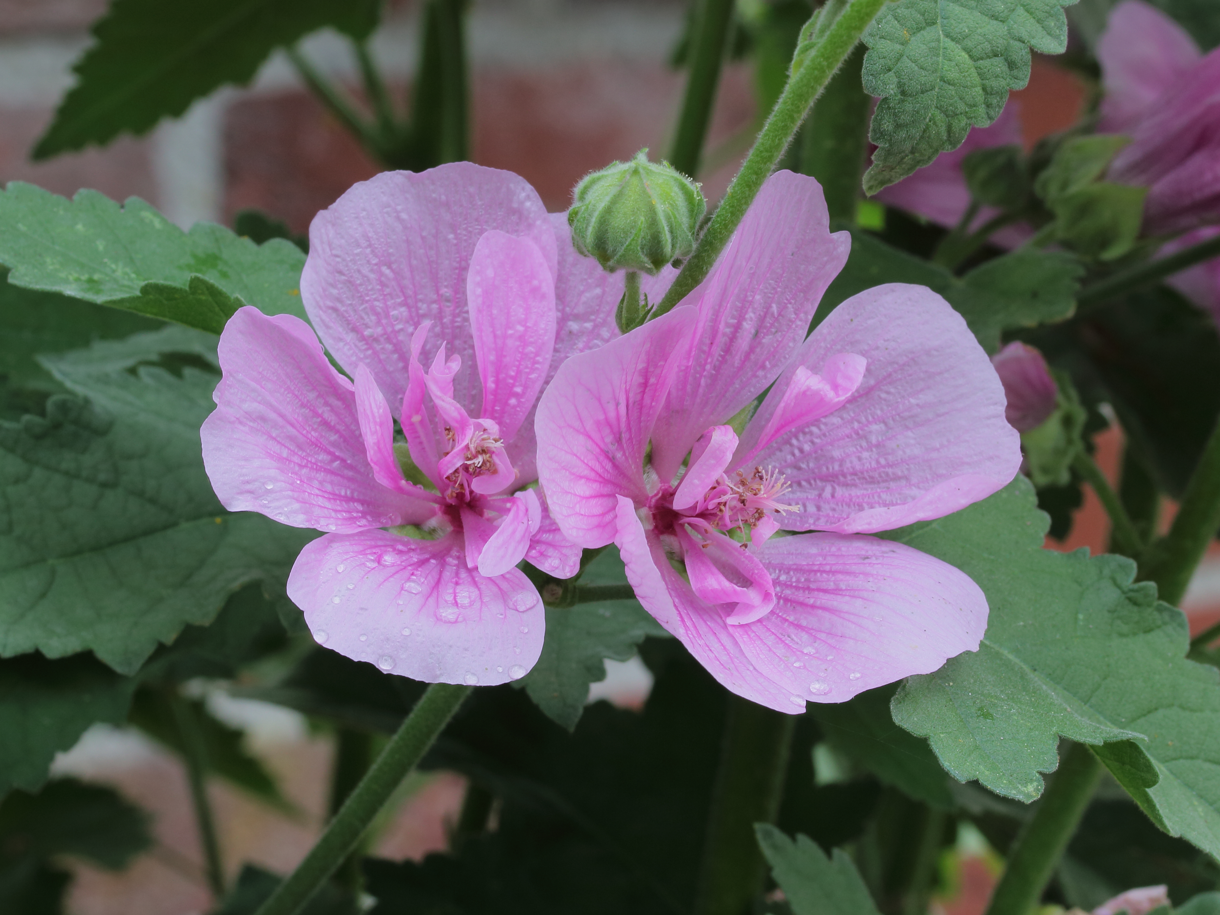 Alcea x Althaea. Beautiful double fixed.